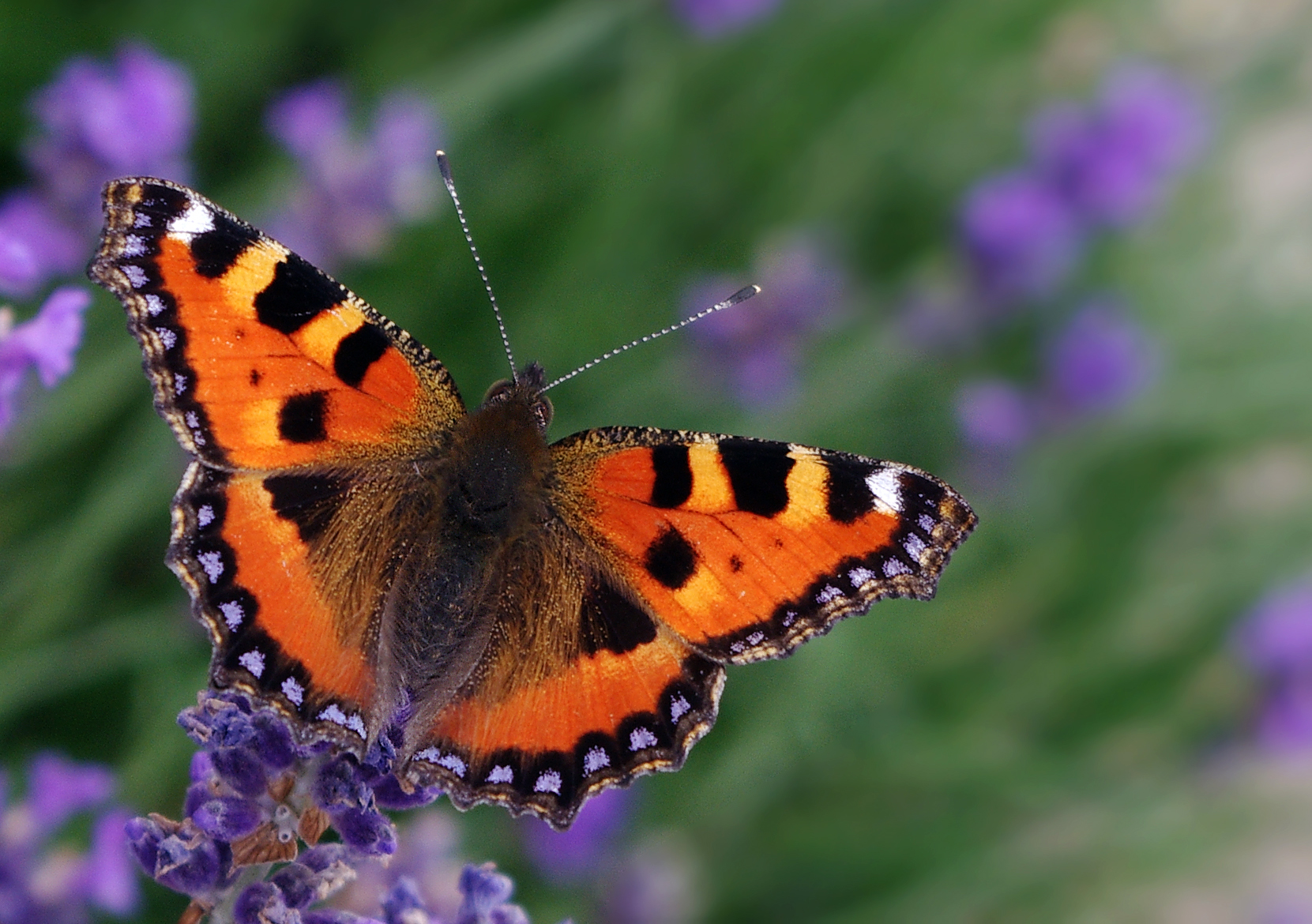 A Small Tortoiseshell (Aglais urticae) feeding on lavender flowers.